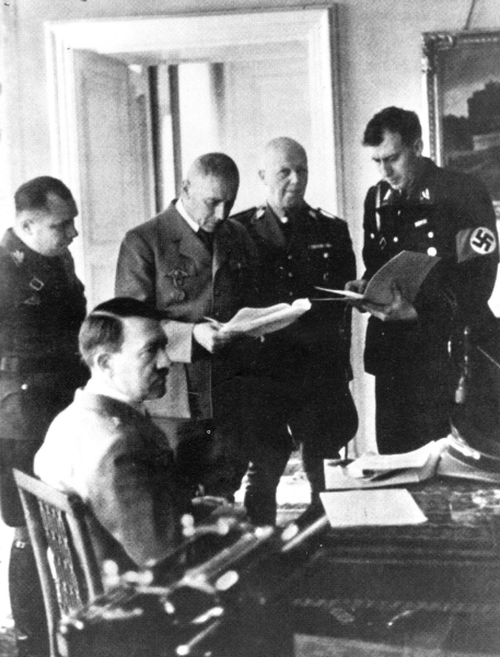 Adolf Hitler shortly before the signing of the Order of the Protectorate of Bohemia and Moravia